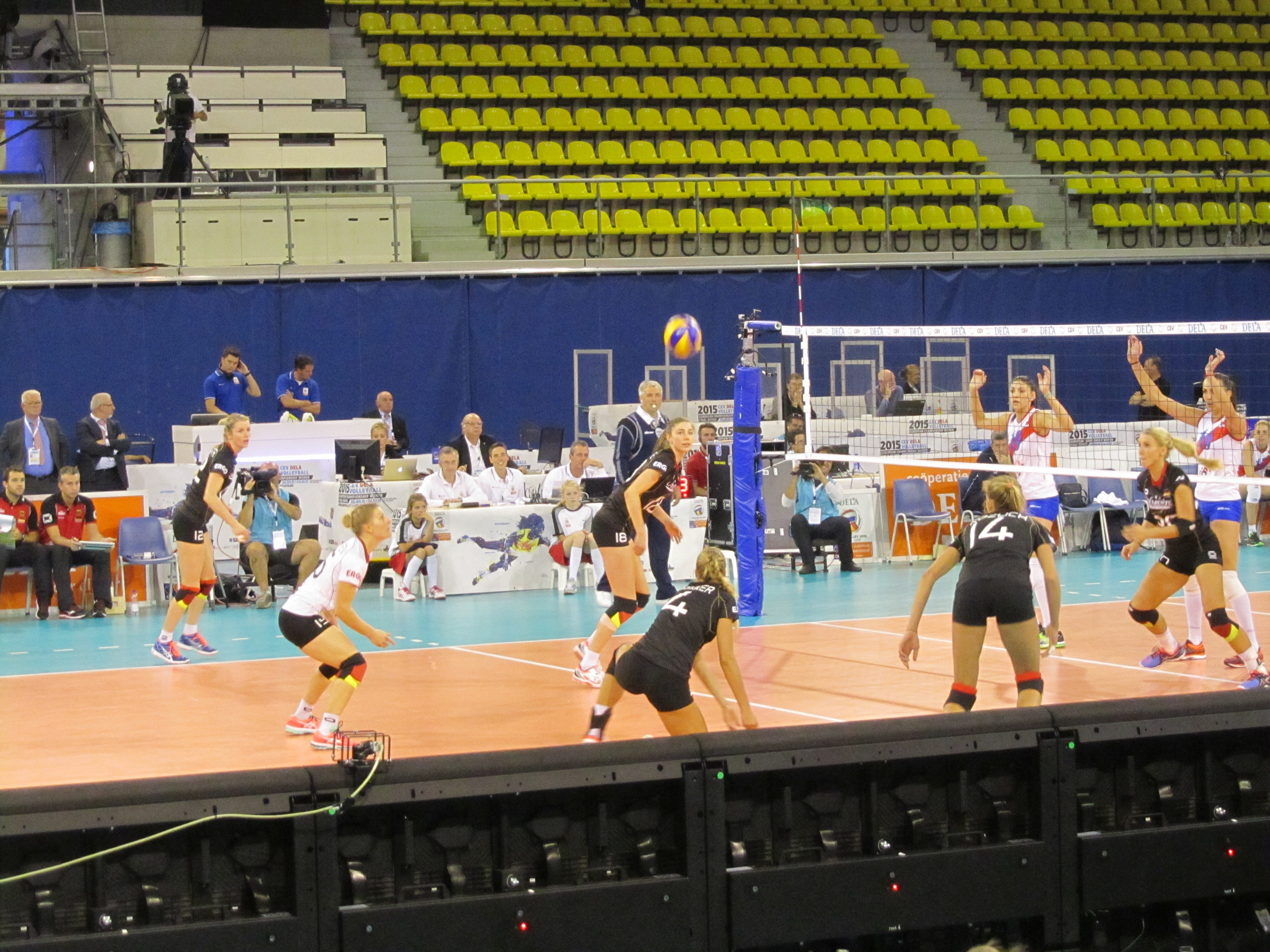 Scene of the match Germany vs Serbia in pool D of the Women's European Volleyball Championship in the Indoor Sportcentrum in Eindhoven (Netherlands)